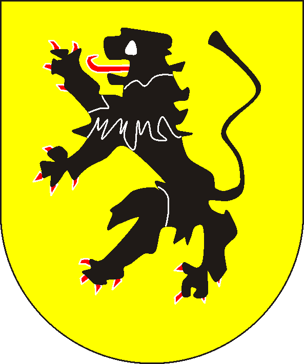 coat of arms